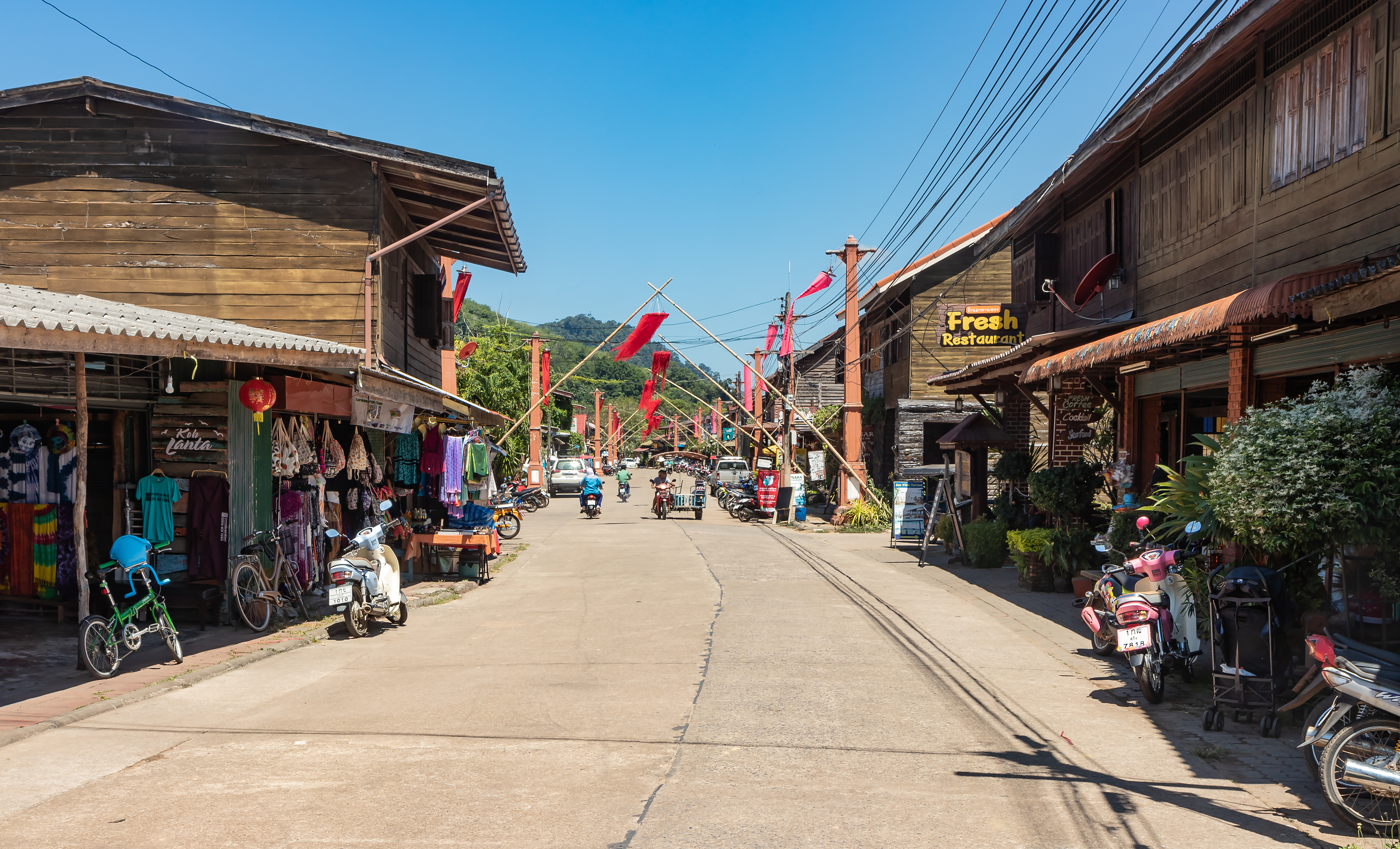 Main Street of Lanta Old Town, Ko Lanta, Thailand